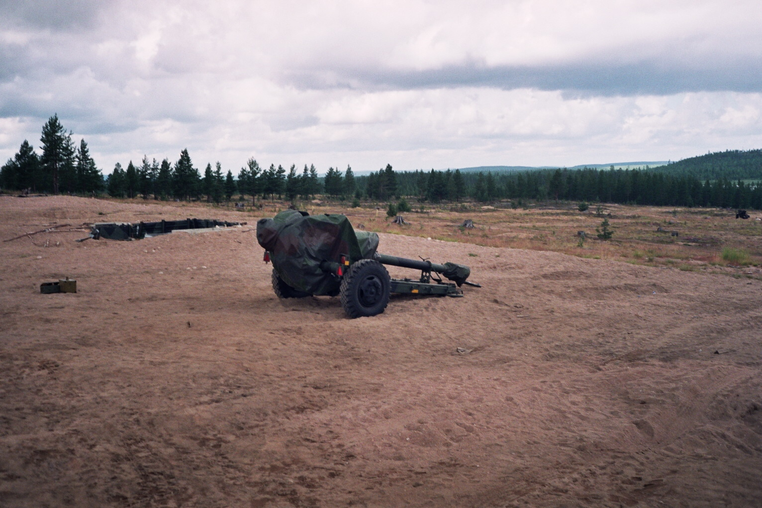 A view from the Rovajärvi military shooting range in the northern Finland. In the foreground is a Soviet-made 122 mm howitzer D-30.